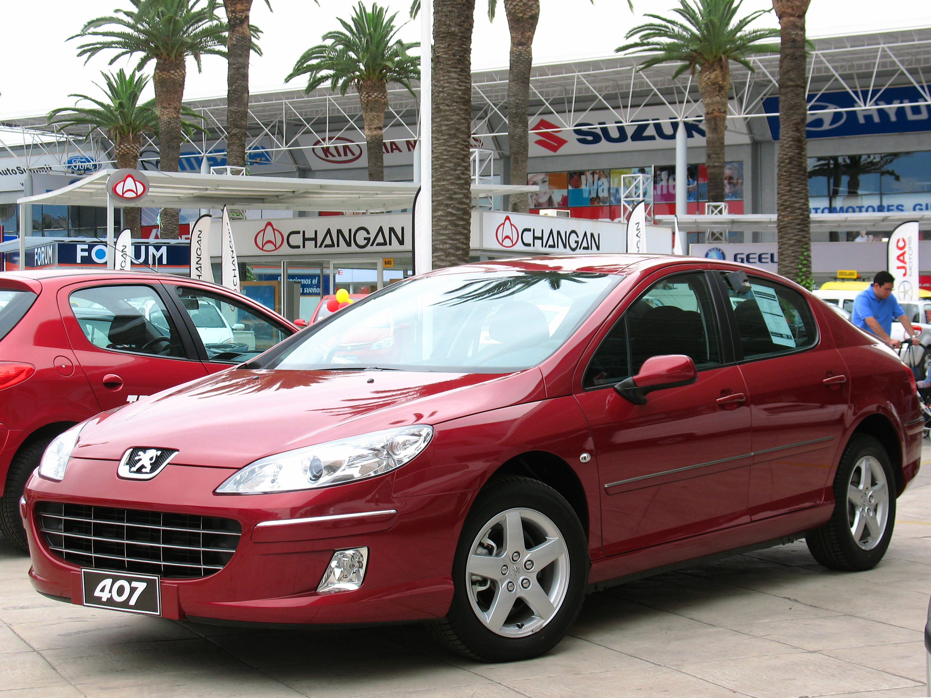 Peugeot 407 2.0 HDi Confort 2010